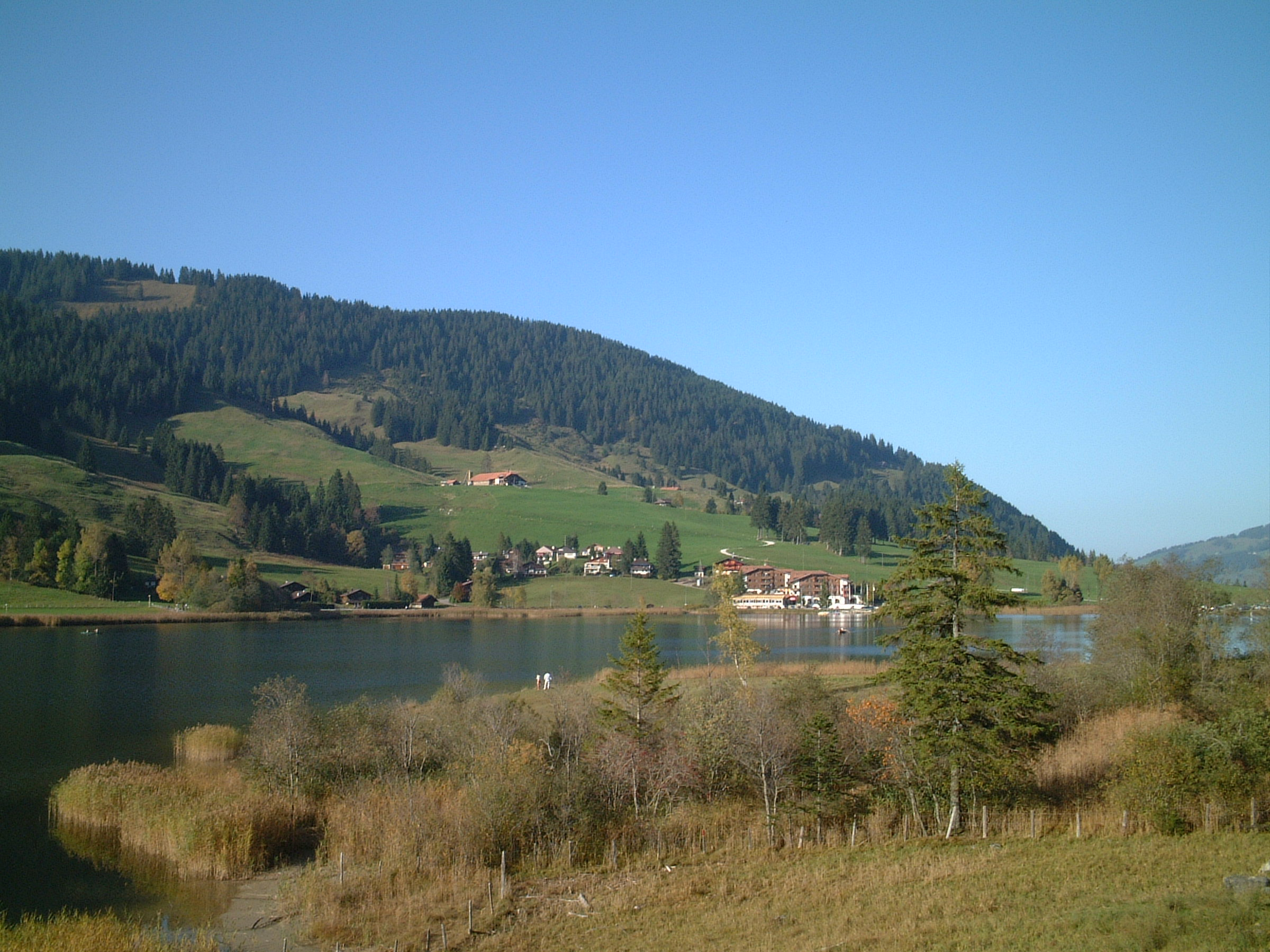 Black lake (English), Schwarzsee (German), Lac Noir (French). Located in the canton of Freiburg, Switzerland.